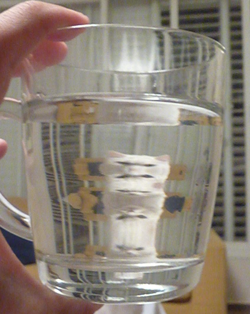 Mirage experiment. Using a glass cup with three different liquid layers - high concentration sugar solution at the bottom, lower concentration in the middle and clear water in the upper layer. This simulates an atmosphere with two inversion layers.